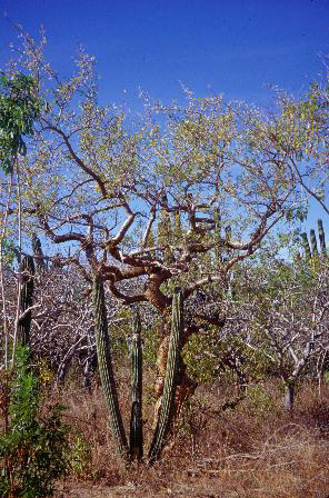 Bursera microphylla" near Todos Santos, Baja California Sur, Mexico